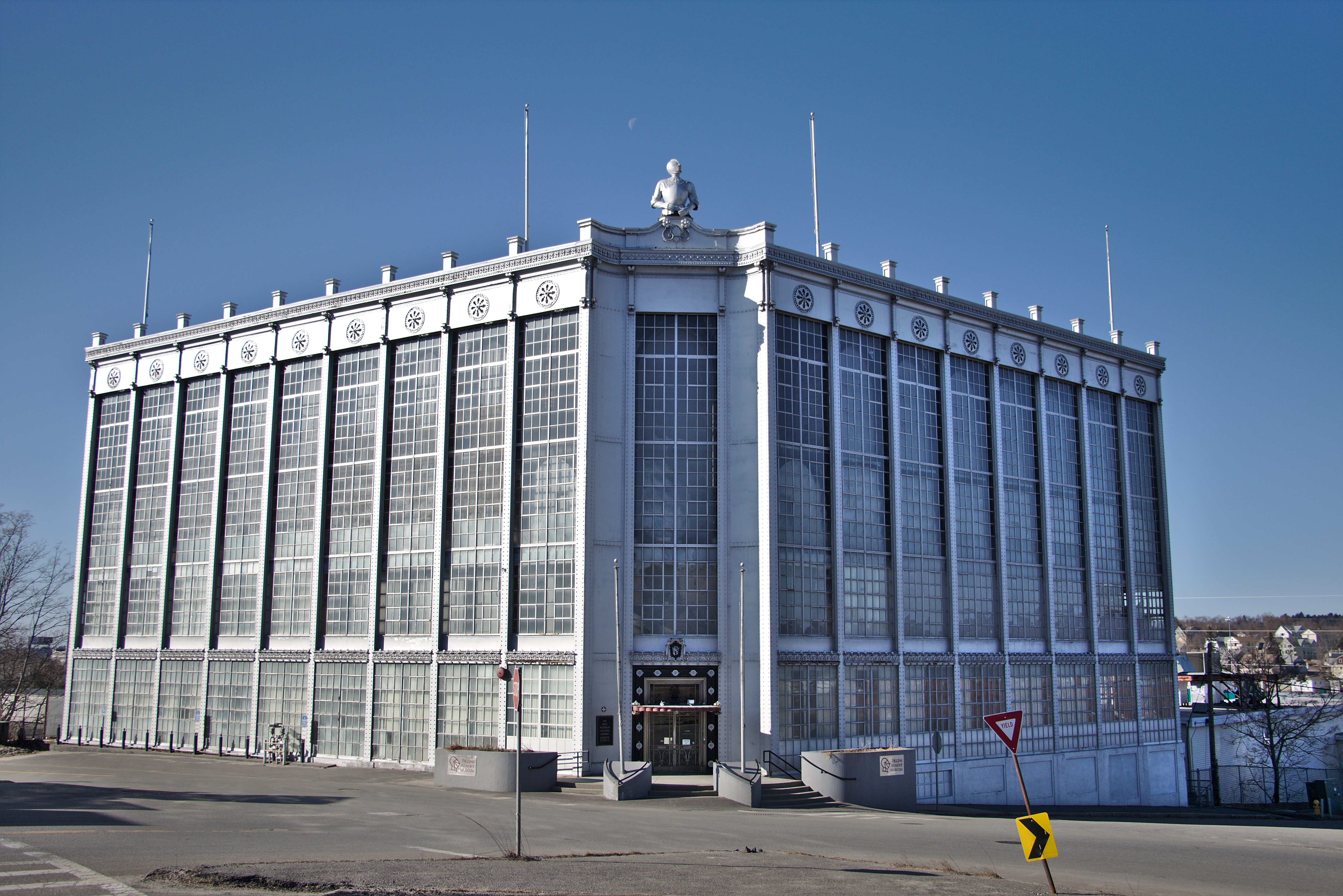 The now-empty Higgins Armory Museum in Worcester, Massachusetts. The H.A.M. closed its doors at the end of 2013.